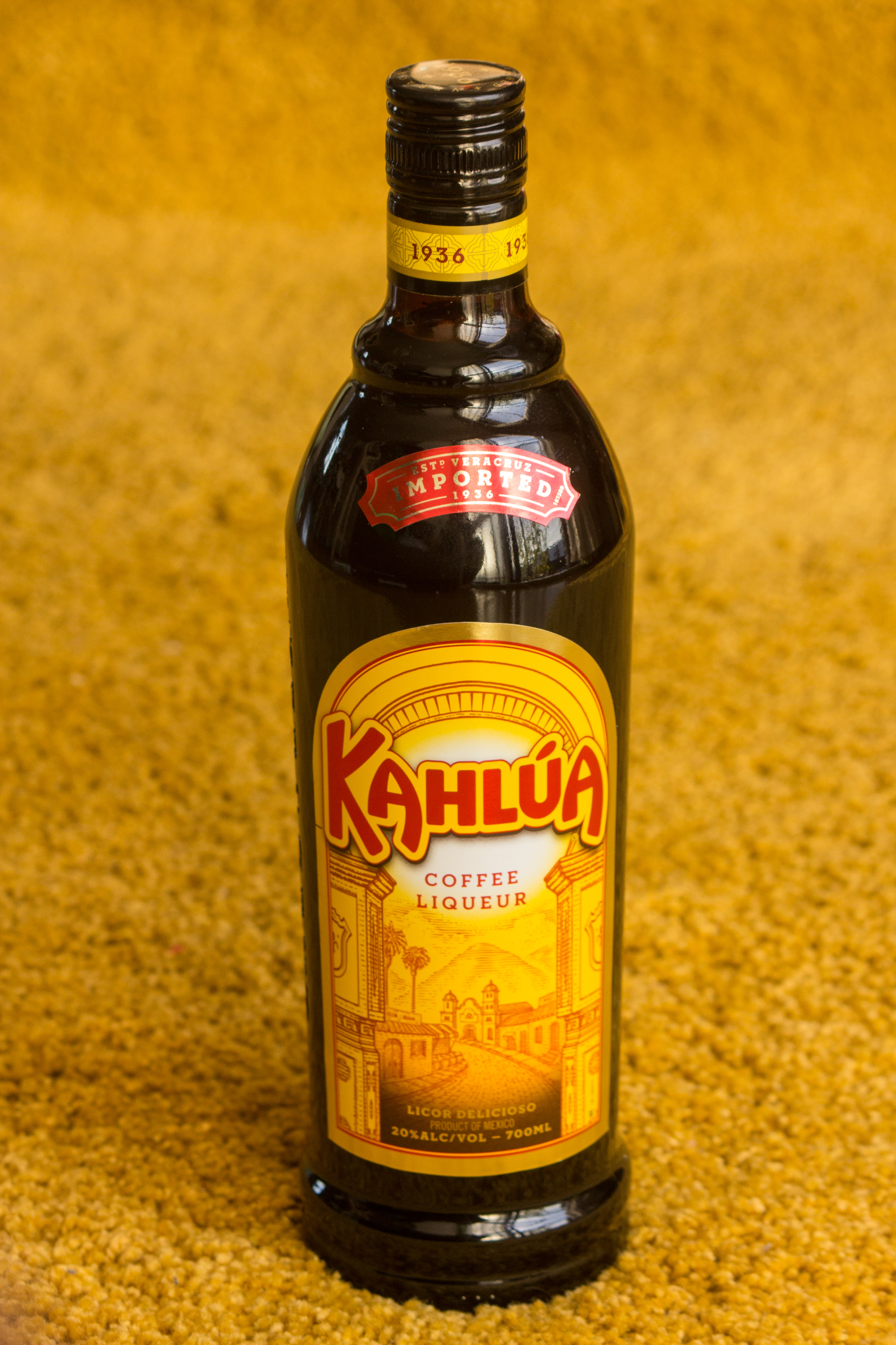 700ml Kahlúa bottle with yellow background